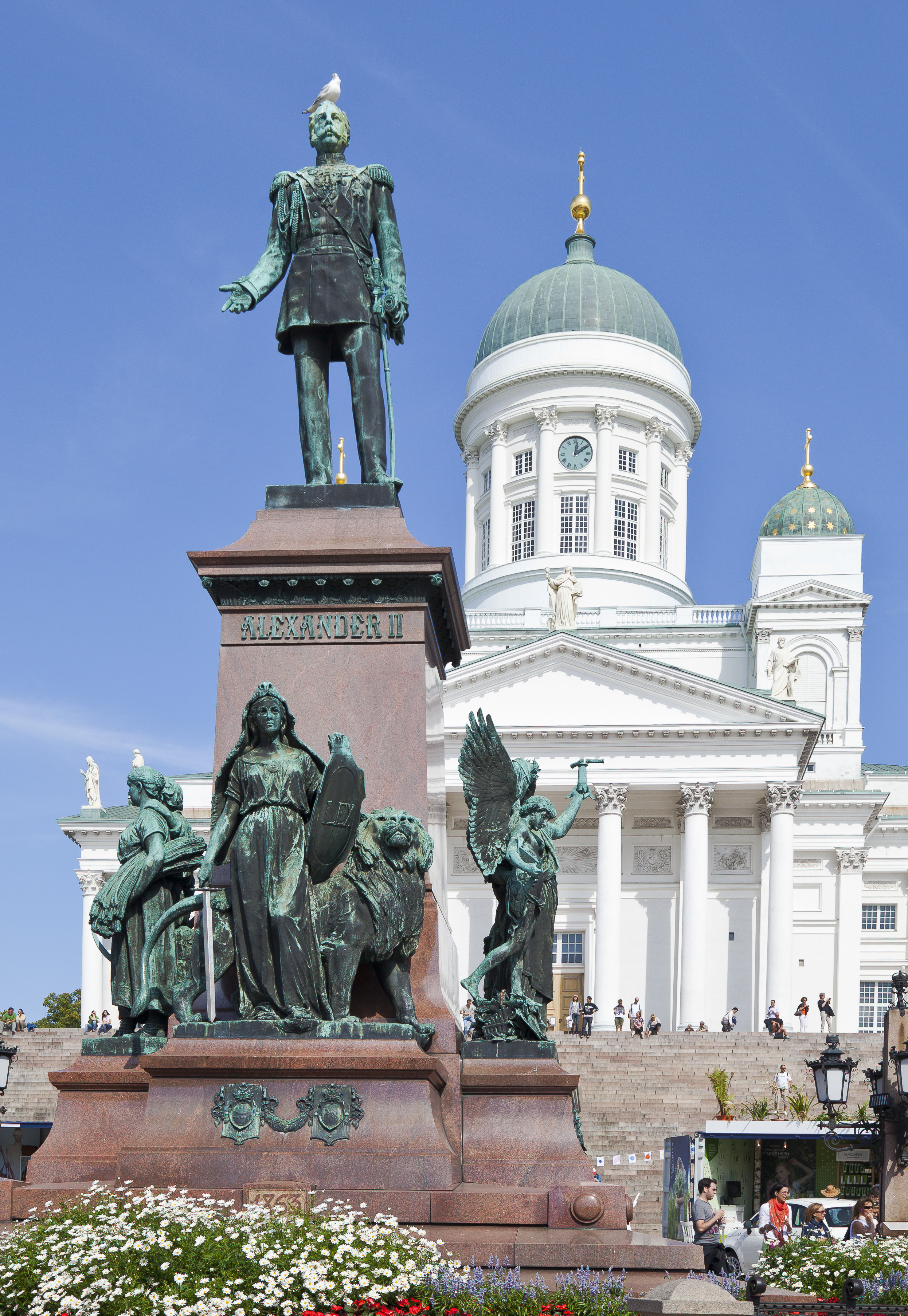 Statue of Alexander II, Helsinki, Finnland